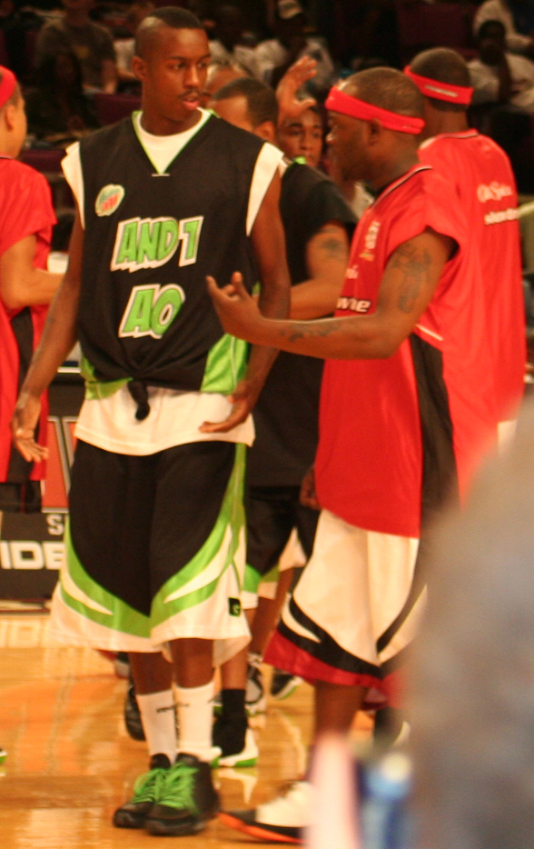 "AO" and "Circus" talking during a game in New York.